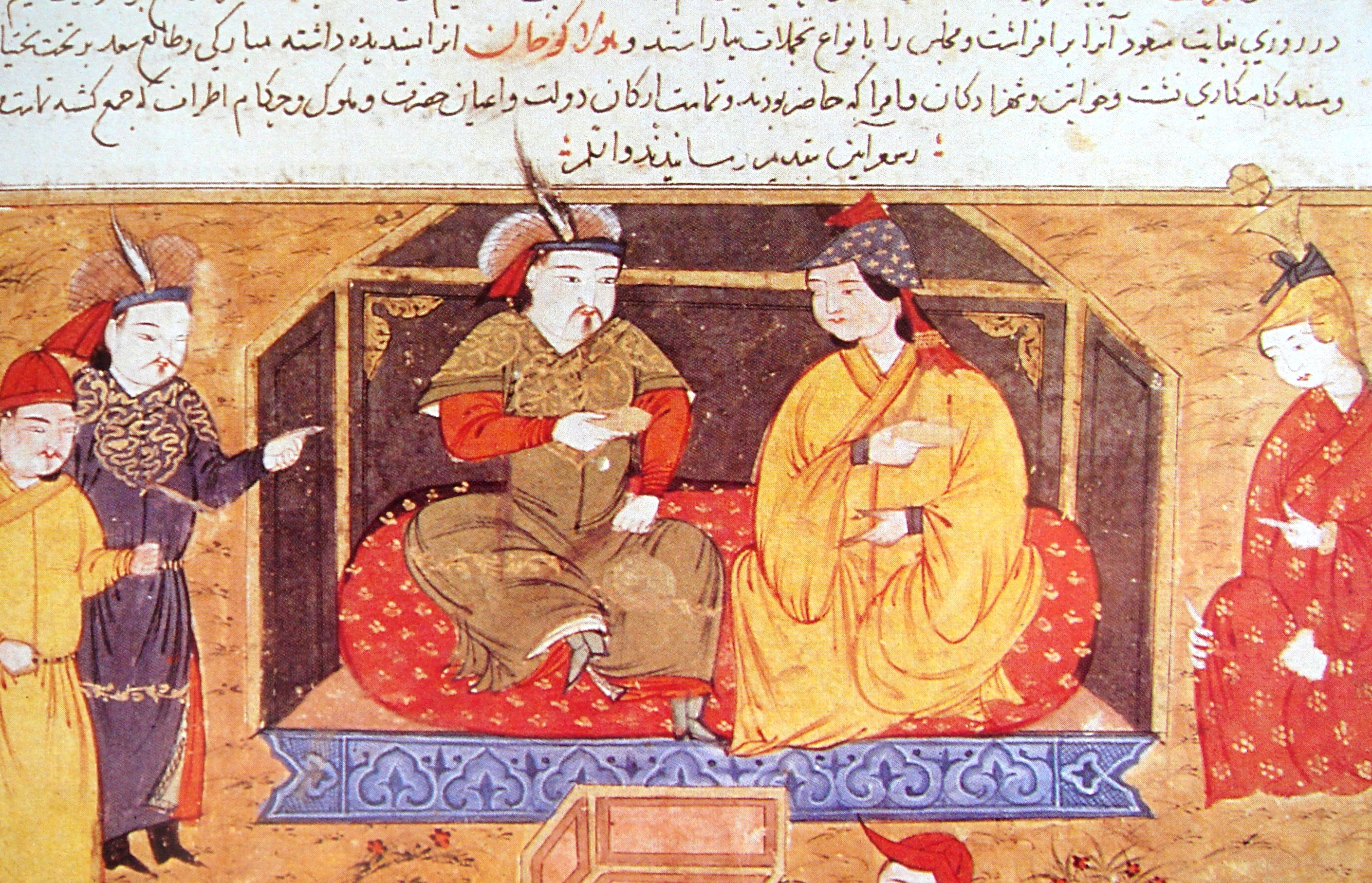 Hulagu and his wife Dokuz Kathun